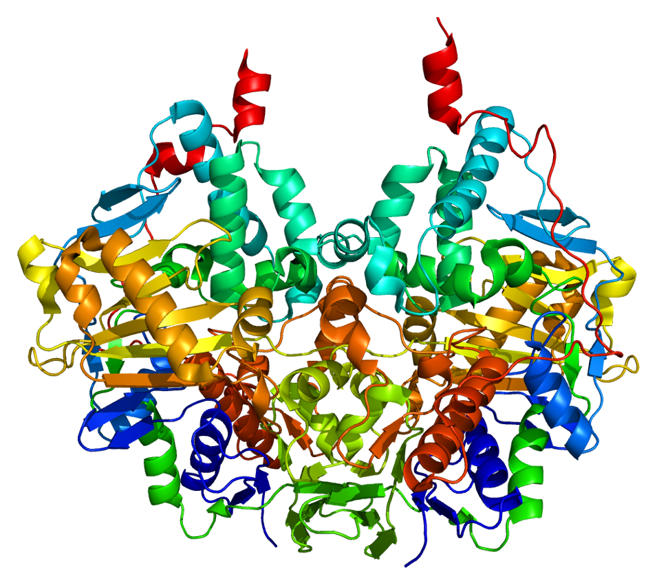 Structure of the MAOB protein. Based on PyMOL rendering of PDB 1gos.